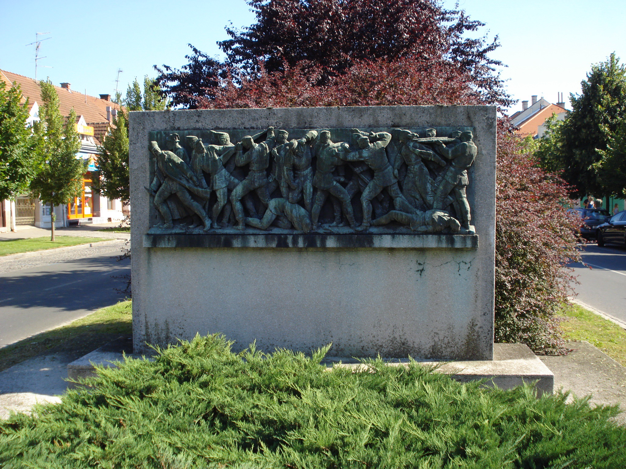 World War Two Victims memorial at Eugen Kvaternik Square in Čakovec, Croatia - work of Vjekoslav Rukljač, a Croatian sculptor, from 1950